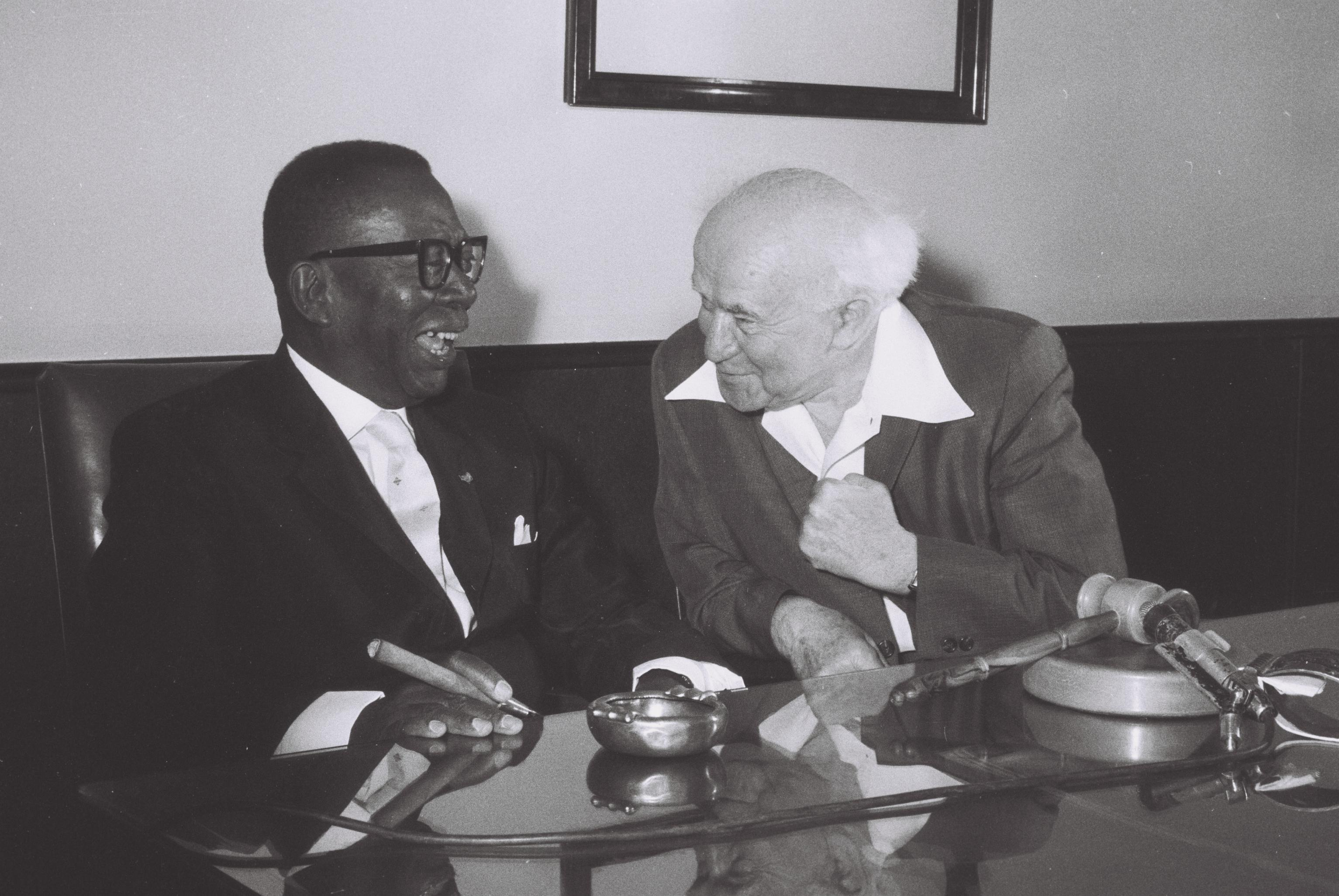 PRES. WILLIAM TUBMAN OF LIBERIA WITH PRIME MIN. DAVID BEN GURION (R) AT HIS OFFICE IN JERUSALEM.